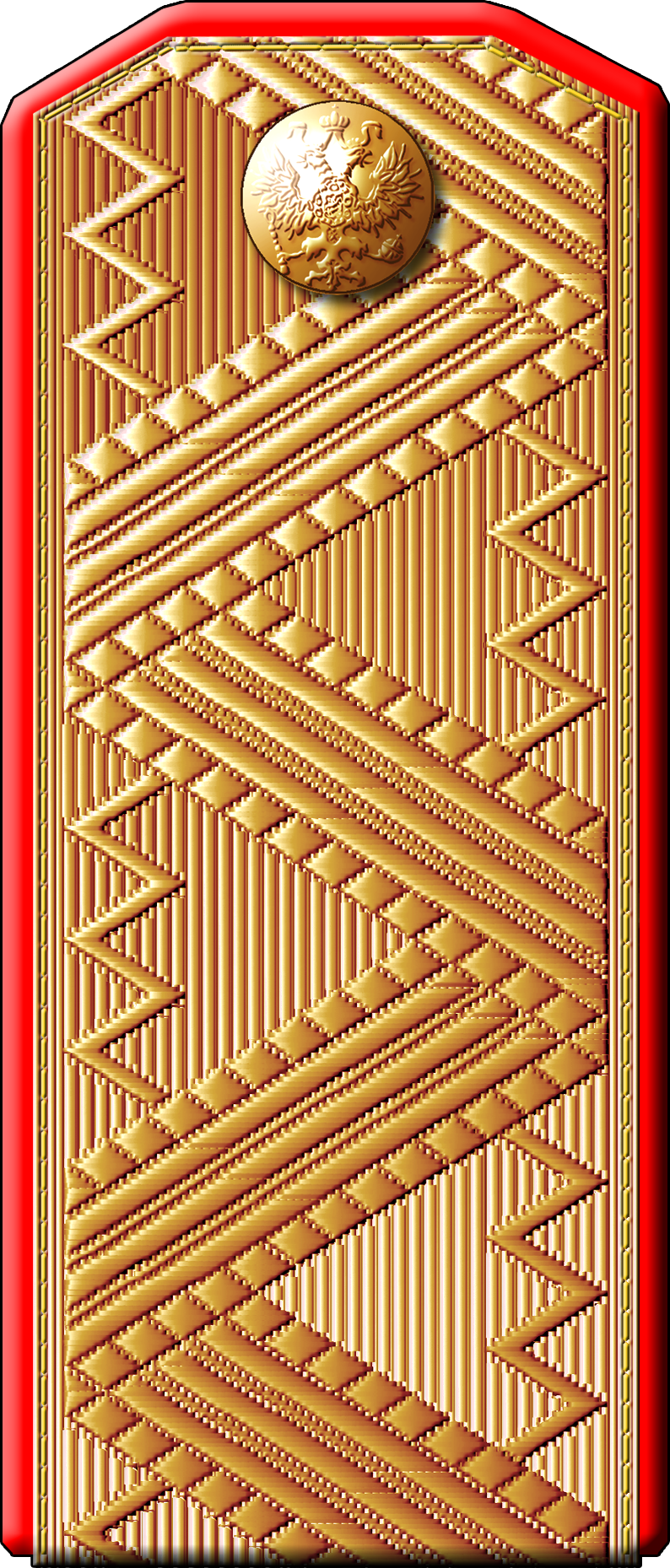 Rank insignia of the Imperial Russian Army , here "General of the branch" – shoulder board 1904-1917 for officers of infantry, cavalry, 1st and 2nd Guard-Infantry-Division (excepted chief squadron / company) and Guard-Cavalry-Regiment. This shoulder board was also used for the ranks General of infantry, General of cavalry.